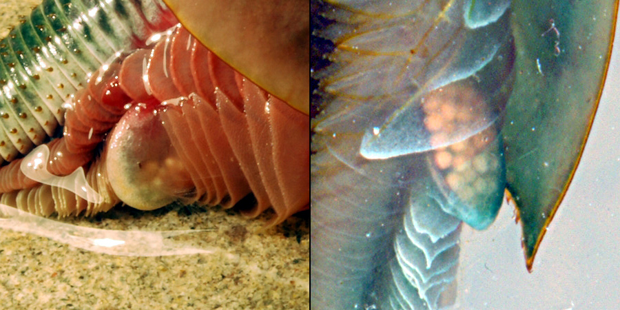 Cysts capsule of Triops longicaudatus